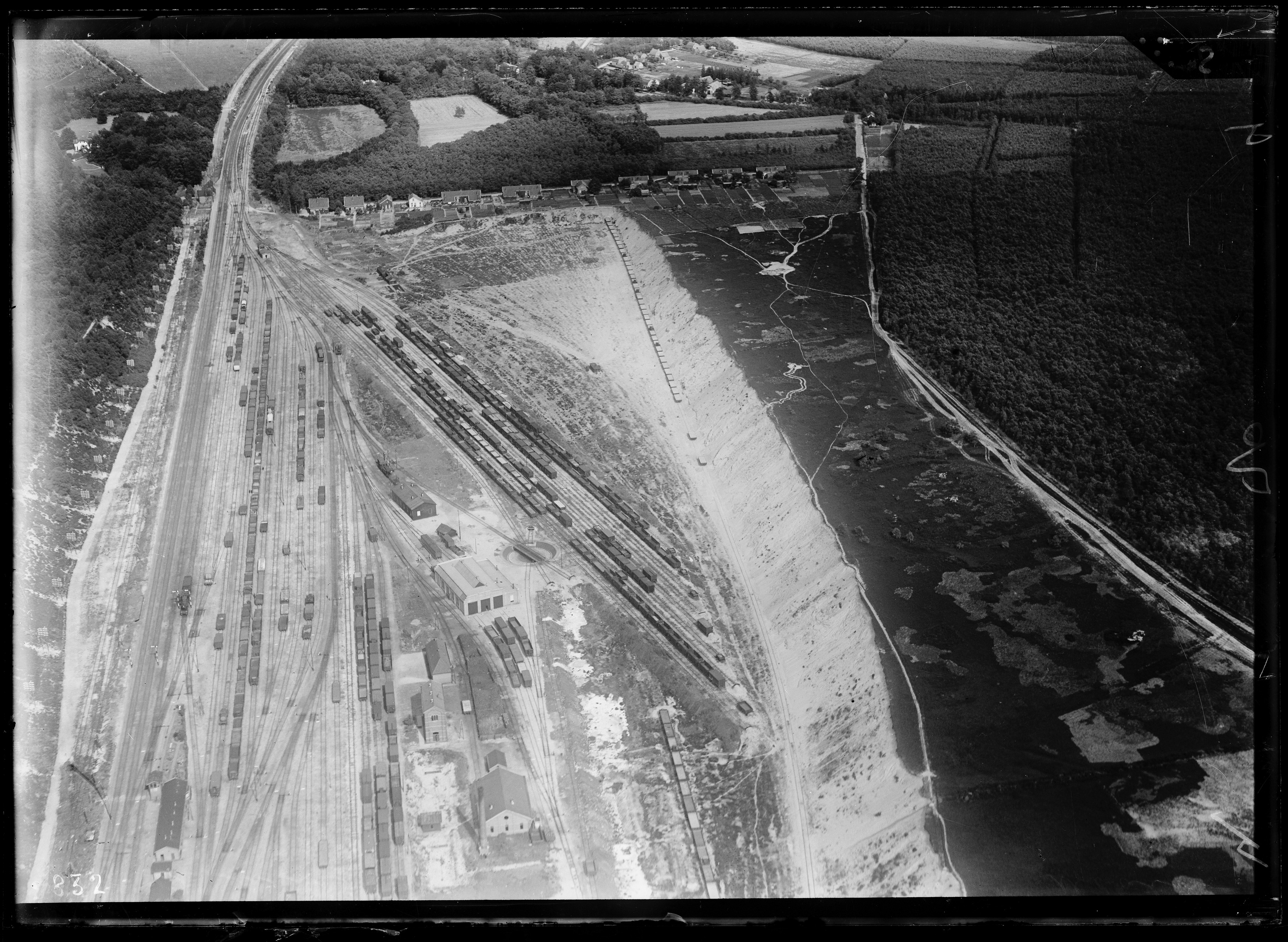 Aerial photograph of Maarn, The Netherlands. In dit gebied ten westen van Maarn is tussen 1840 en 1845 de Utrechtse Heuvelrug doorgraven voor de aanleg van de Rhijnspoorweg en een halteplaats, waar tot 1972 Station Maarn lag. Het rangeerterrein is in 1901 aangelegd en in 1932 gesloten. Behalve de spoorlijn liggen in het gebied anno 2018 de A12 en Zanderij Maarn met Zwerfsteneneiland.